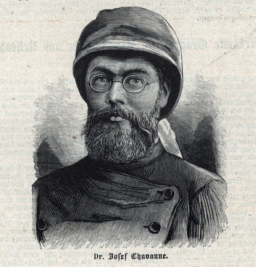 Portrait of Austrian Geographer Josef Chavanne. Wood engraving published in Deutsche Rundschau für Geographie und Statistik 7 (1885), p. 42